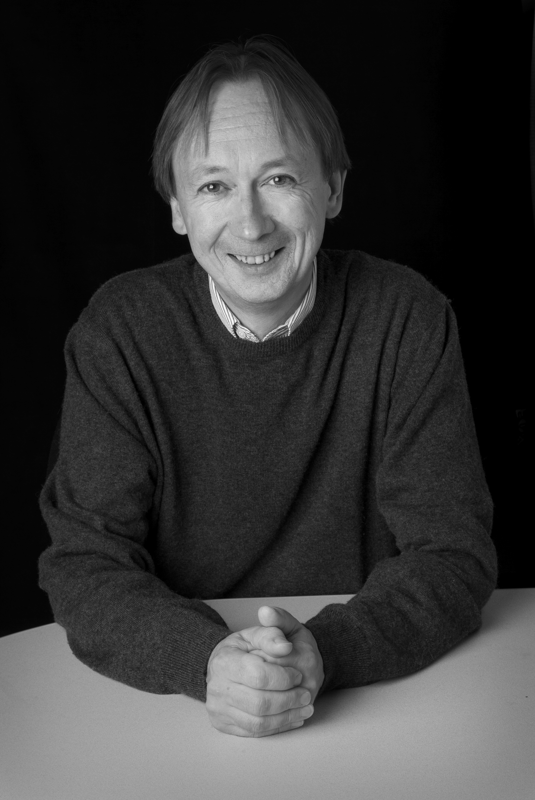 Author Photo by Rob Allen